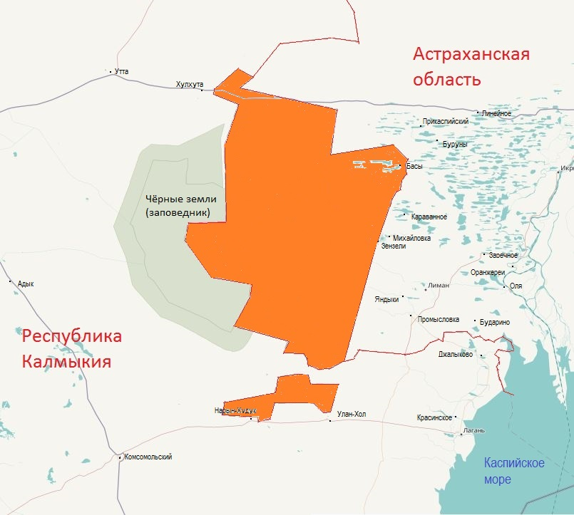 Спорные территории Калмыкии и Астраханской области